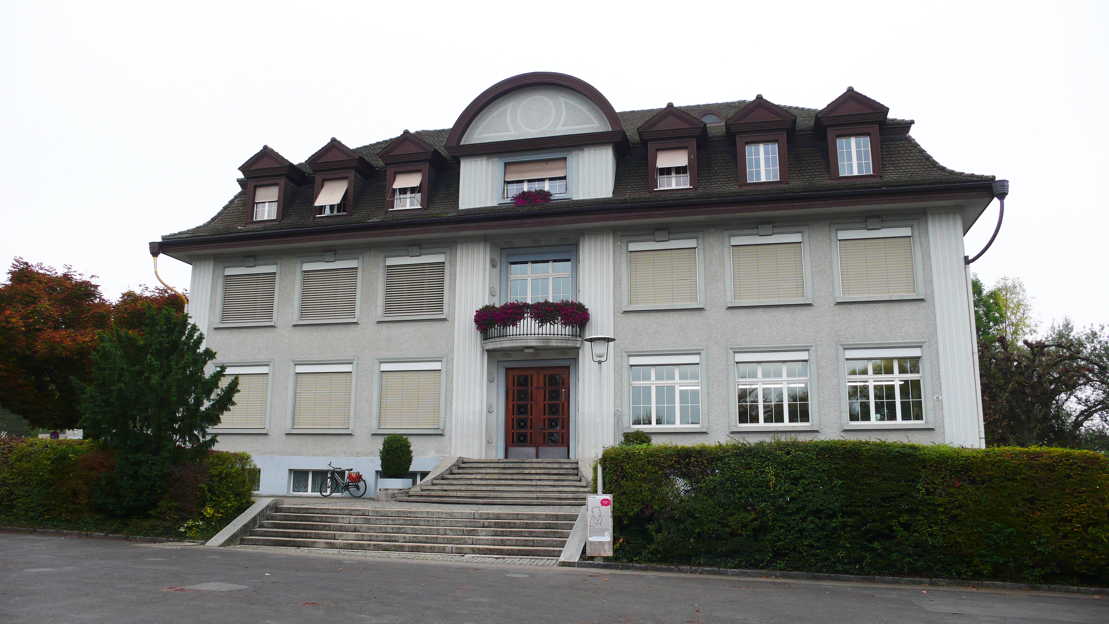 Primary School Building of Emmishofen in Kreuzlingen, Switzerland.